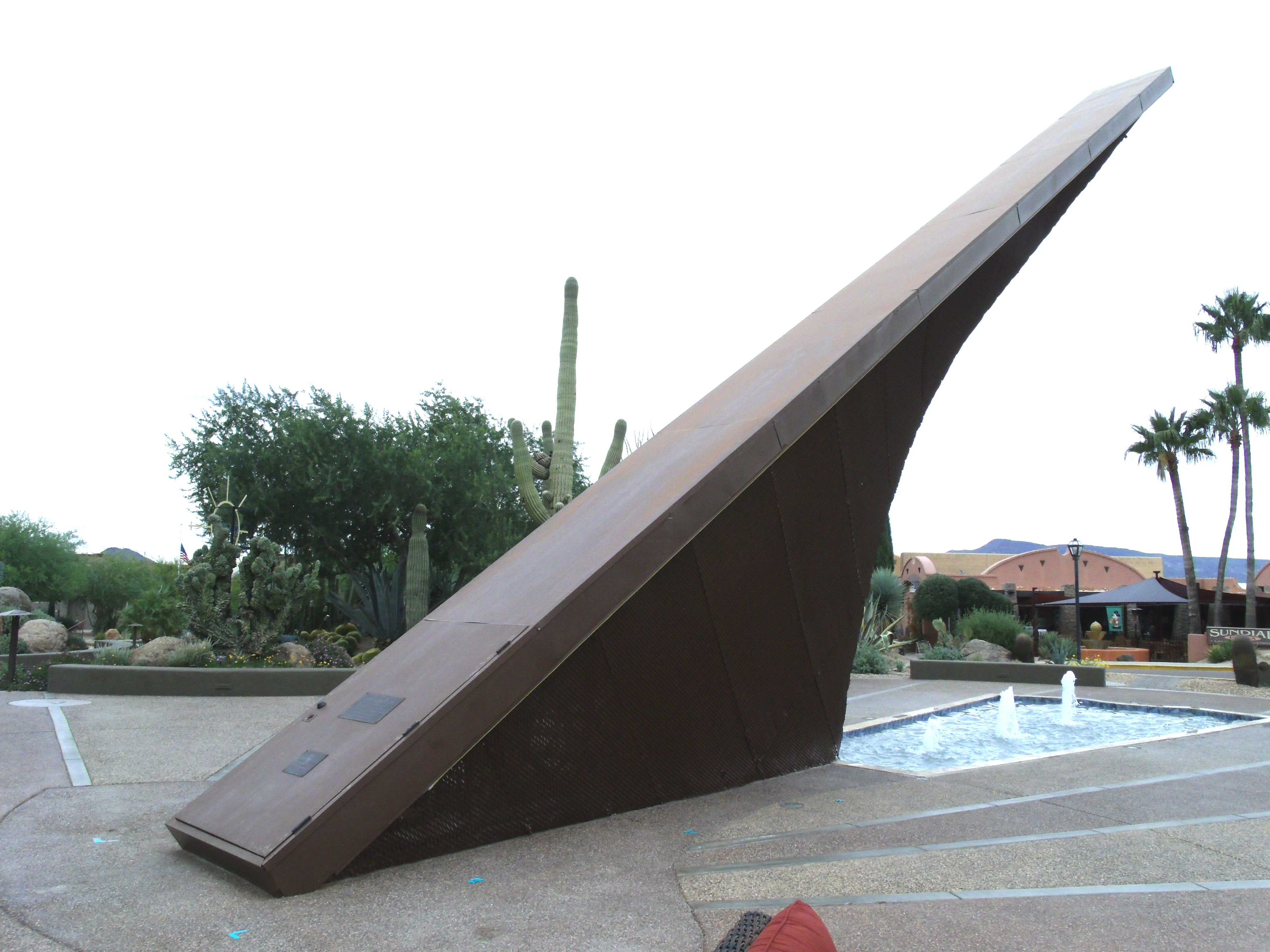 Different view of the Carefree Sundial. The largest sundial in the United States is a giant copper-clad fixture located in Sundial Circle in the town of Carefree, Arizona. It was built in 1959 and stretches 62 feet and points to the North Star. The sundial is the third largest in the Western Hemisphere.[1]